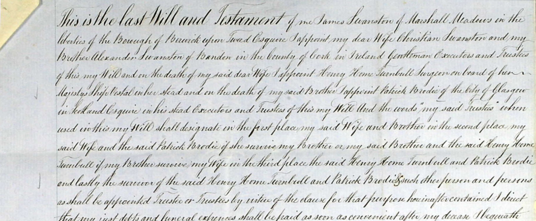 Will of James Swanston of Marshall Meadows Northumberland, 1855